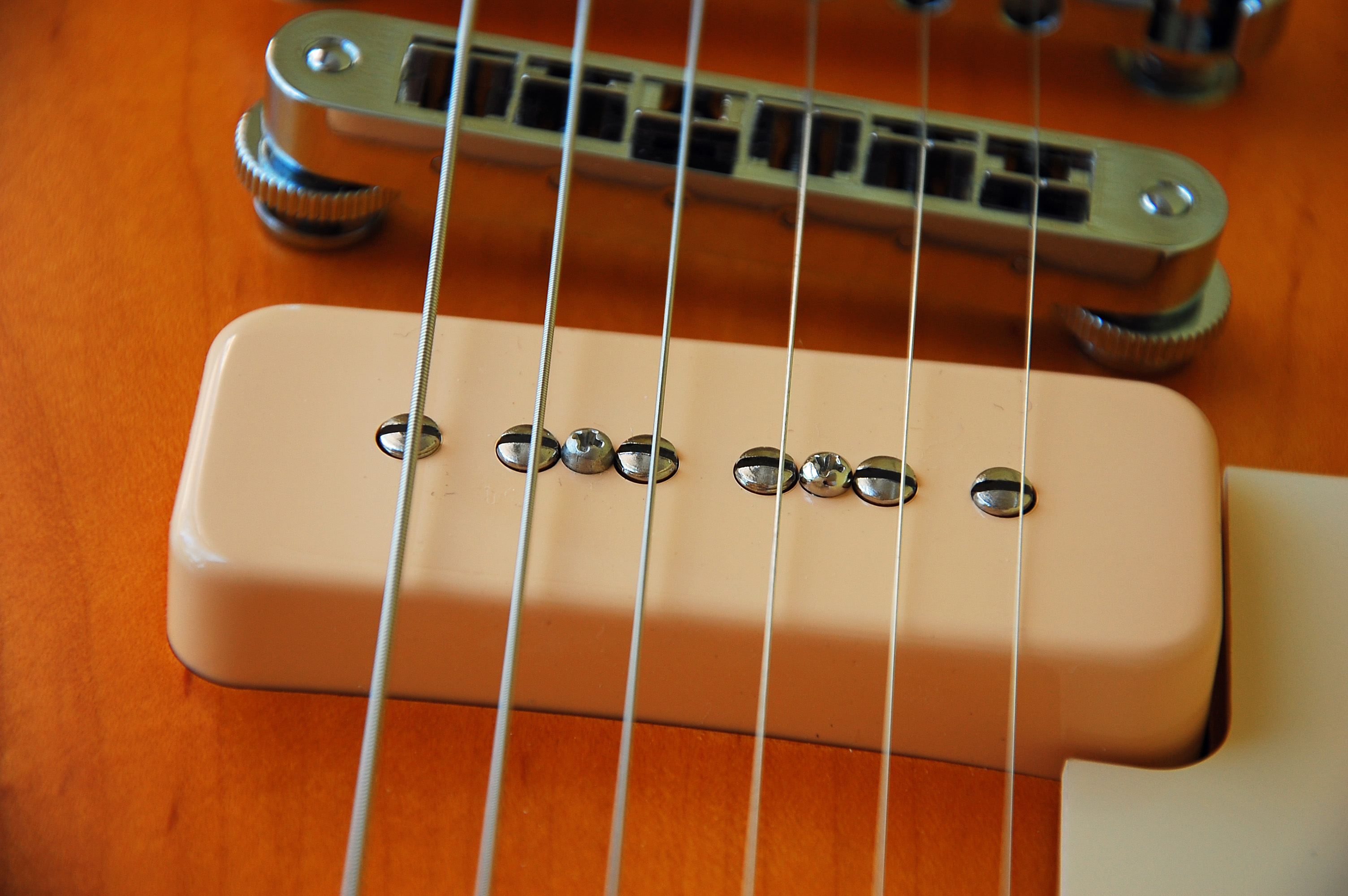 Gibson P-90 soapbar guitar pickup